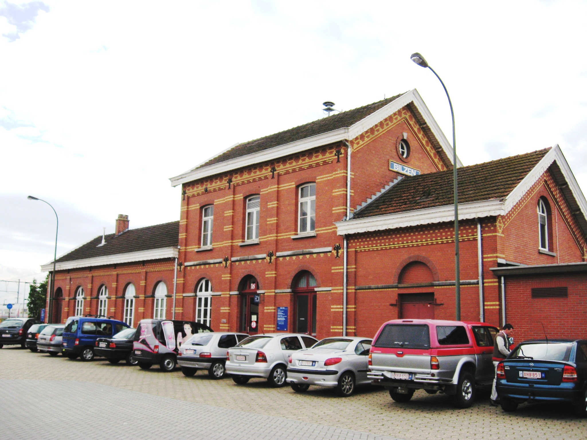 The railway station at Bilzen in Belgium